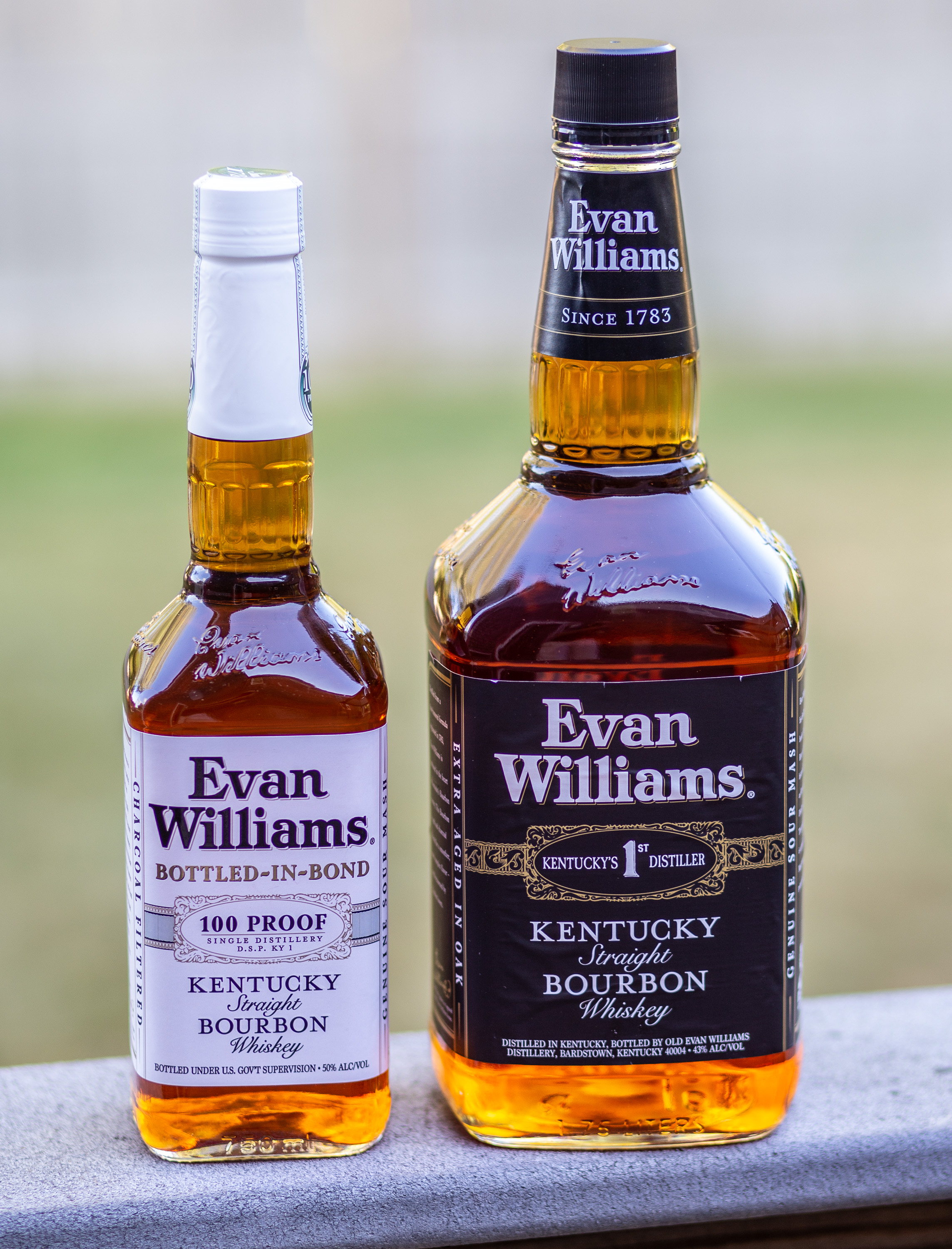 Evan Williams white label and black label whiskey bottles